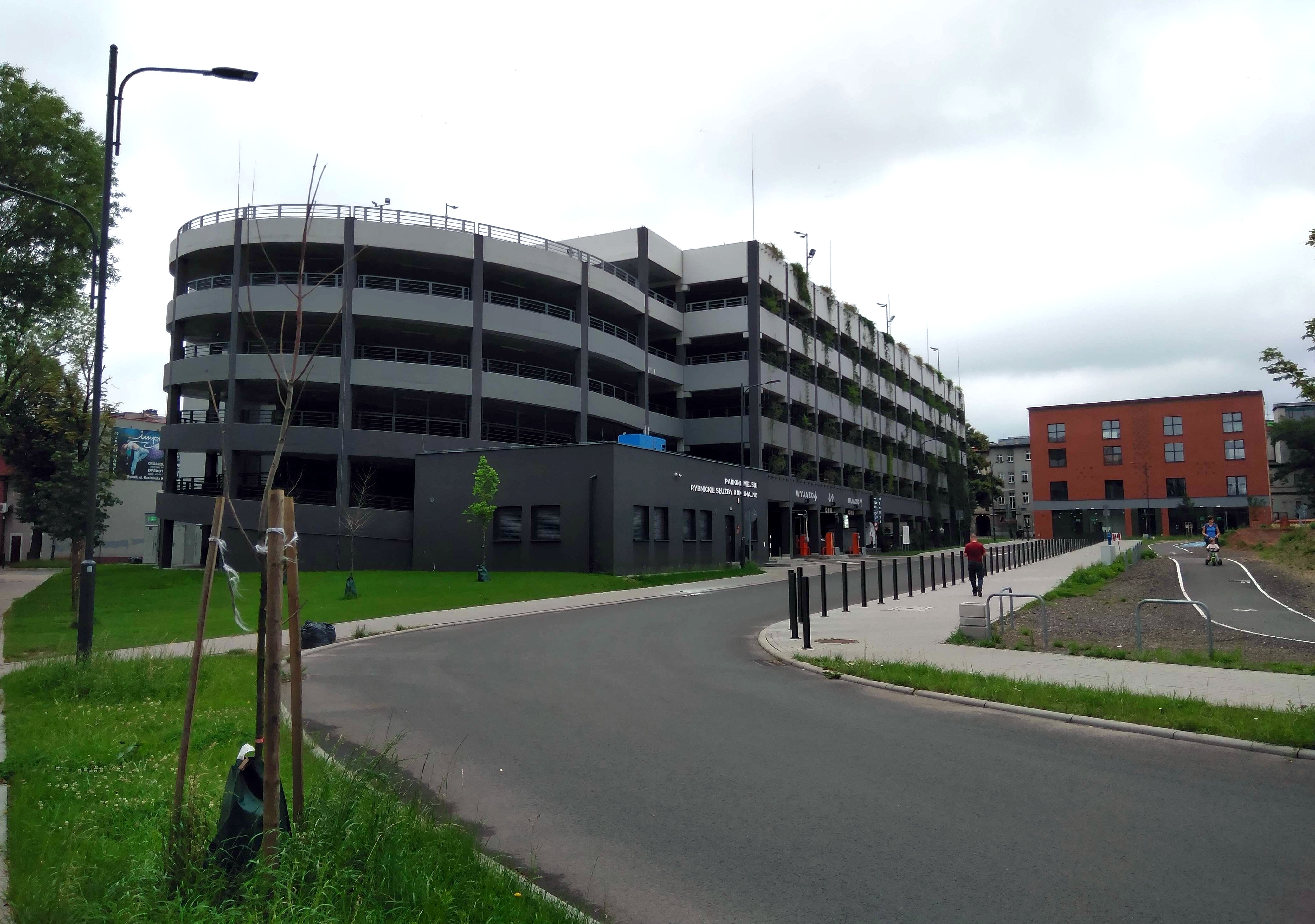 Multistorey car park Rybnik, Upper Silesia, Poland